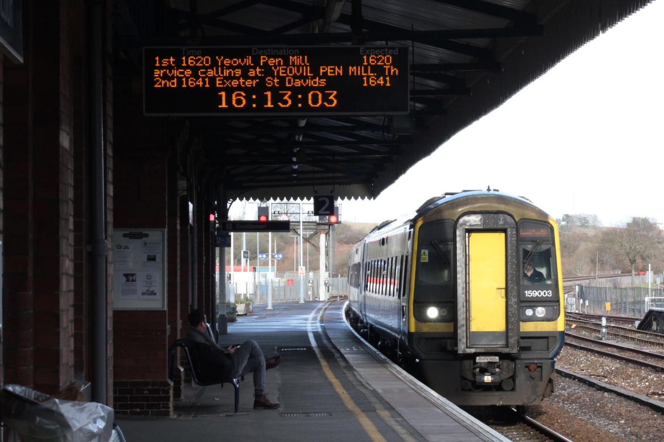 South Western Railway's 159003 arrives at Yeovil Junction with a service from London Waterloo. These trains usually either continue to Exeter or terminate here, but this is one of the few that reverses and continues to the town's other station at Pen Mill which is more conveniently situated for the town centre.